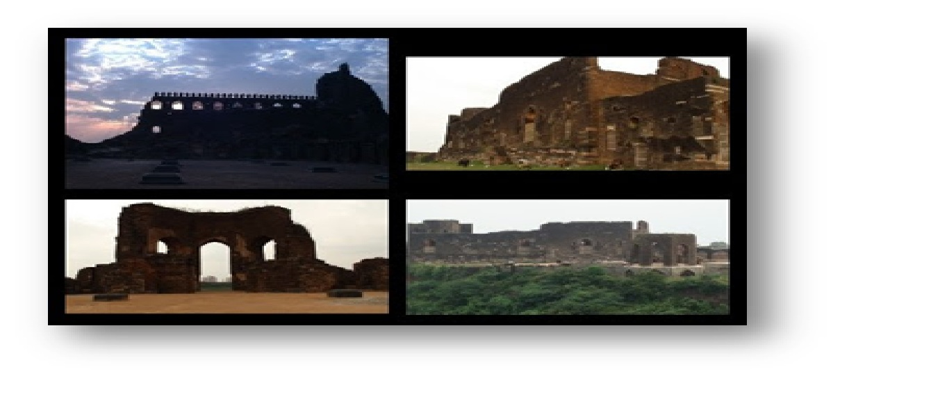 This is the collage of different views of the Diwan-i-am